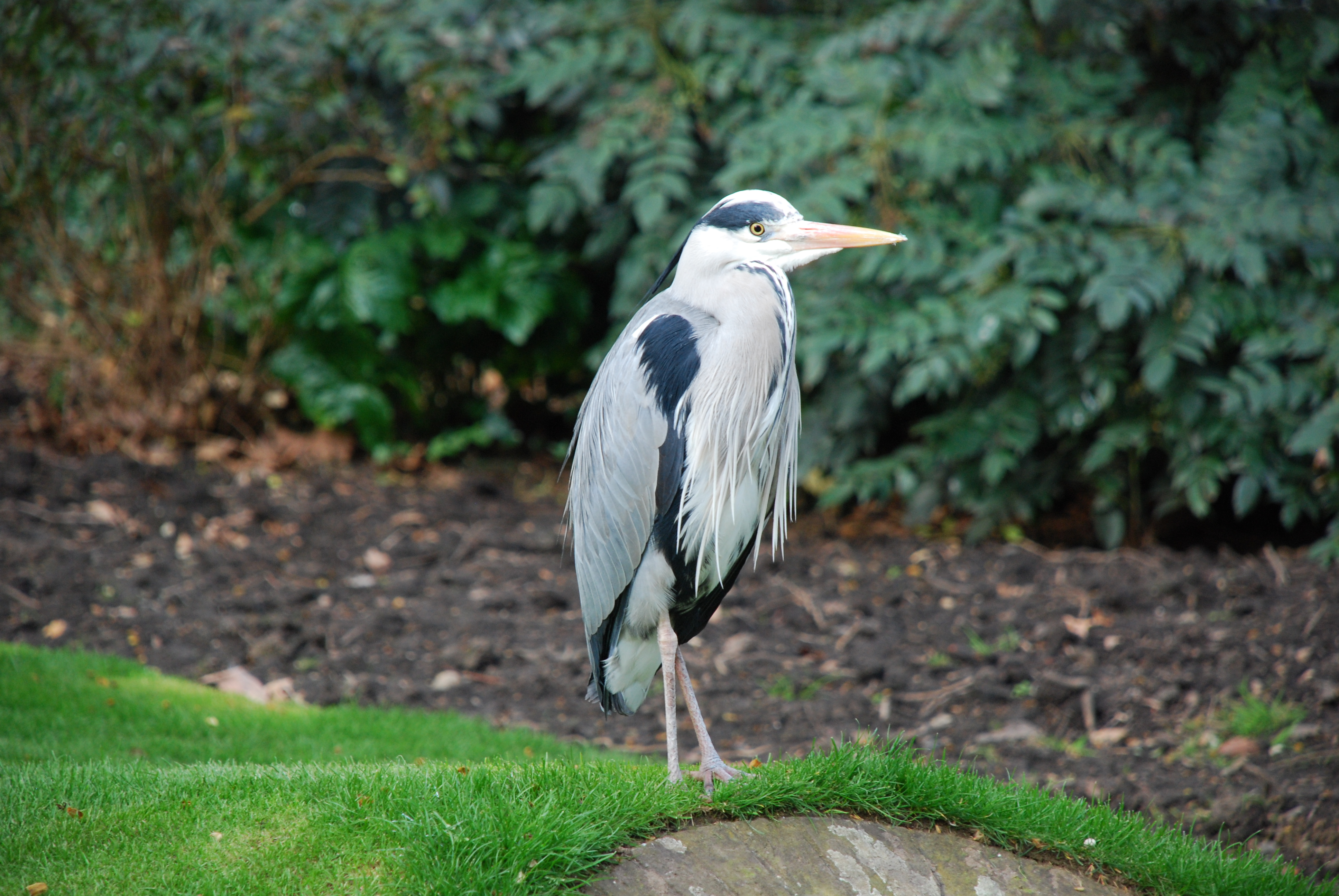 Grey Heron in Hyde Park, London, England. Standing by a pool.